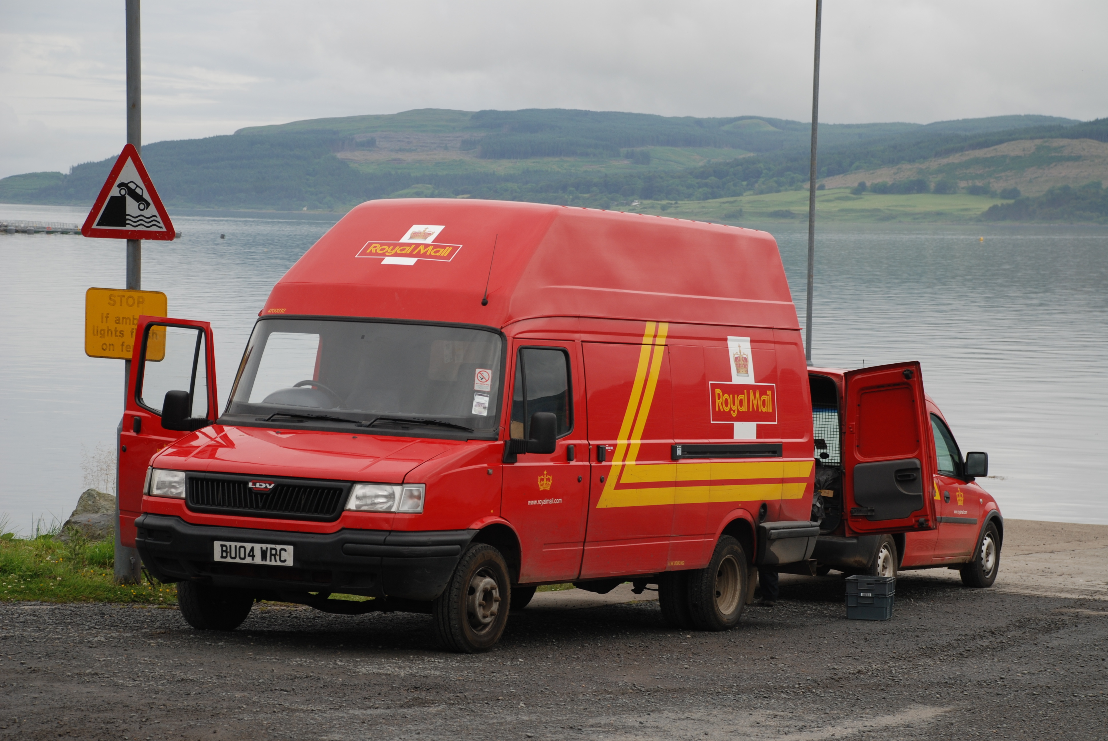 Royal Mail vans exchanging mail at the ferry terminal on the Isle of Mull